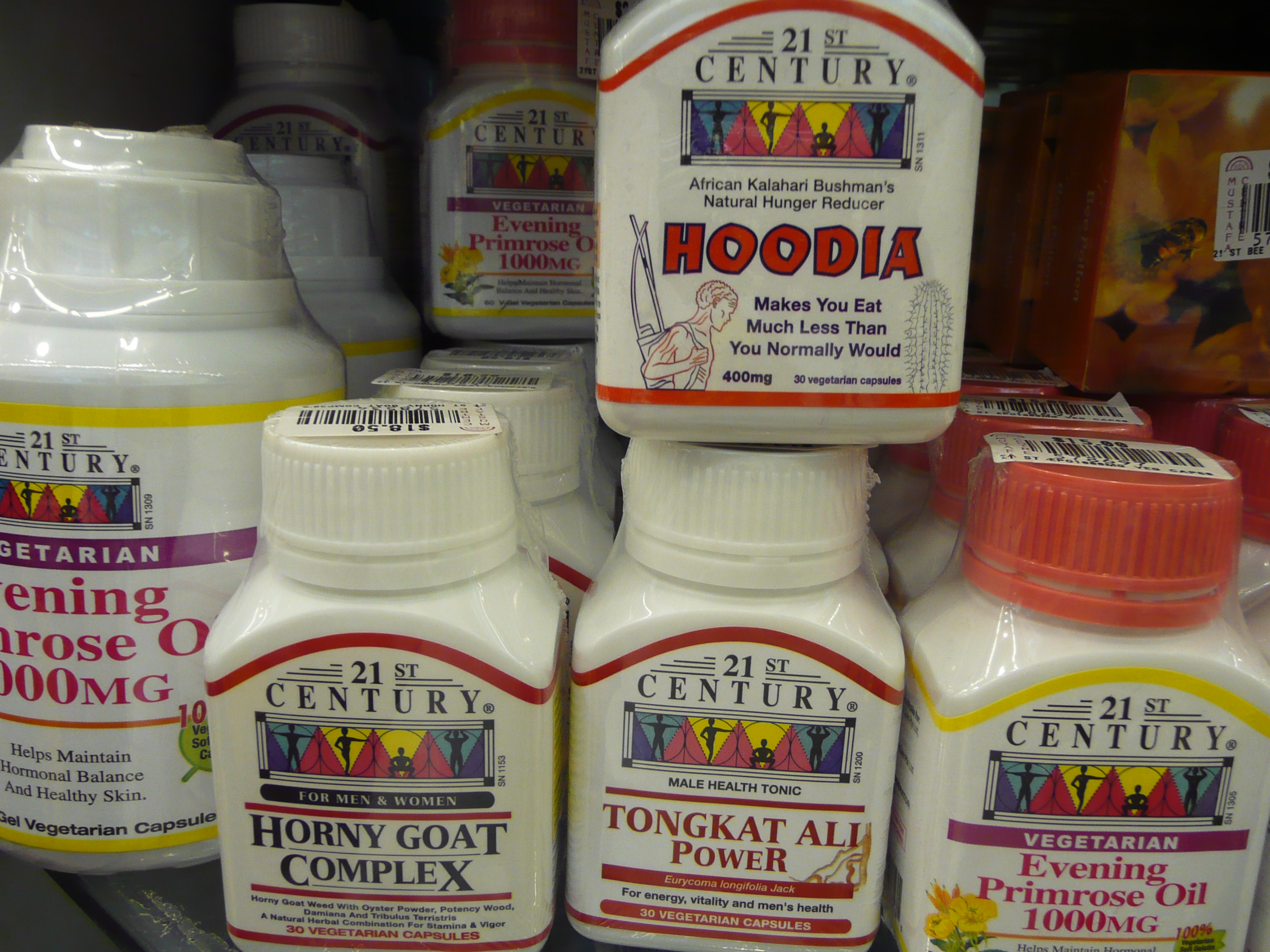 I though hoodia illegal/dangerous. And horny goat complex? Come to think of it, I know some folks back home who could use so of that... Interestingly, all of these were made in the USA. I wonder why you can manufacture and export hoodia but not sell it.